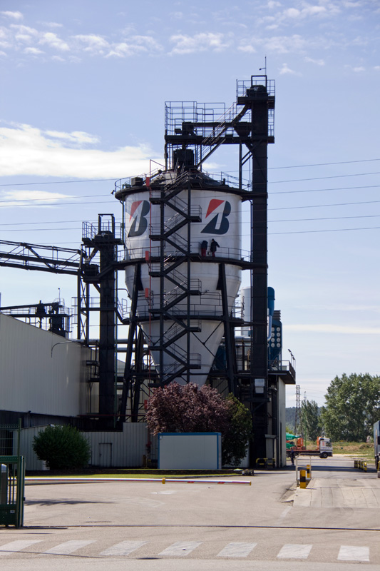 Bridgestone factory in Burgos, Spain.